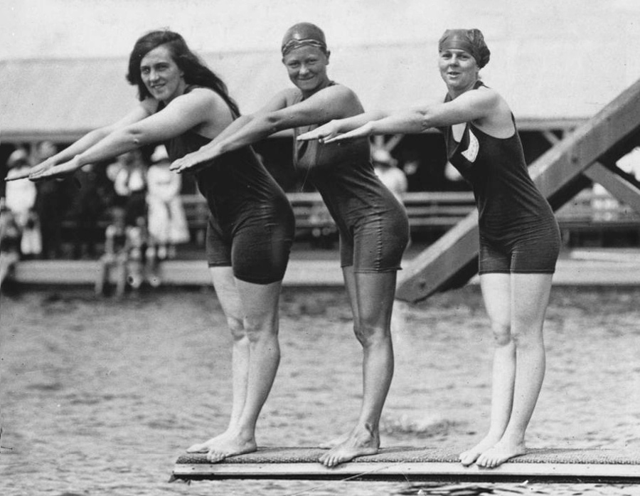 Australian swimmers Fanny Durack (gold) and Mina Wylie (silver) and British swimmer Jennie Fletcher (bronze) celebrate after the 100 metres freestyle at the 1912 Olympic Games in Stockholm.